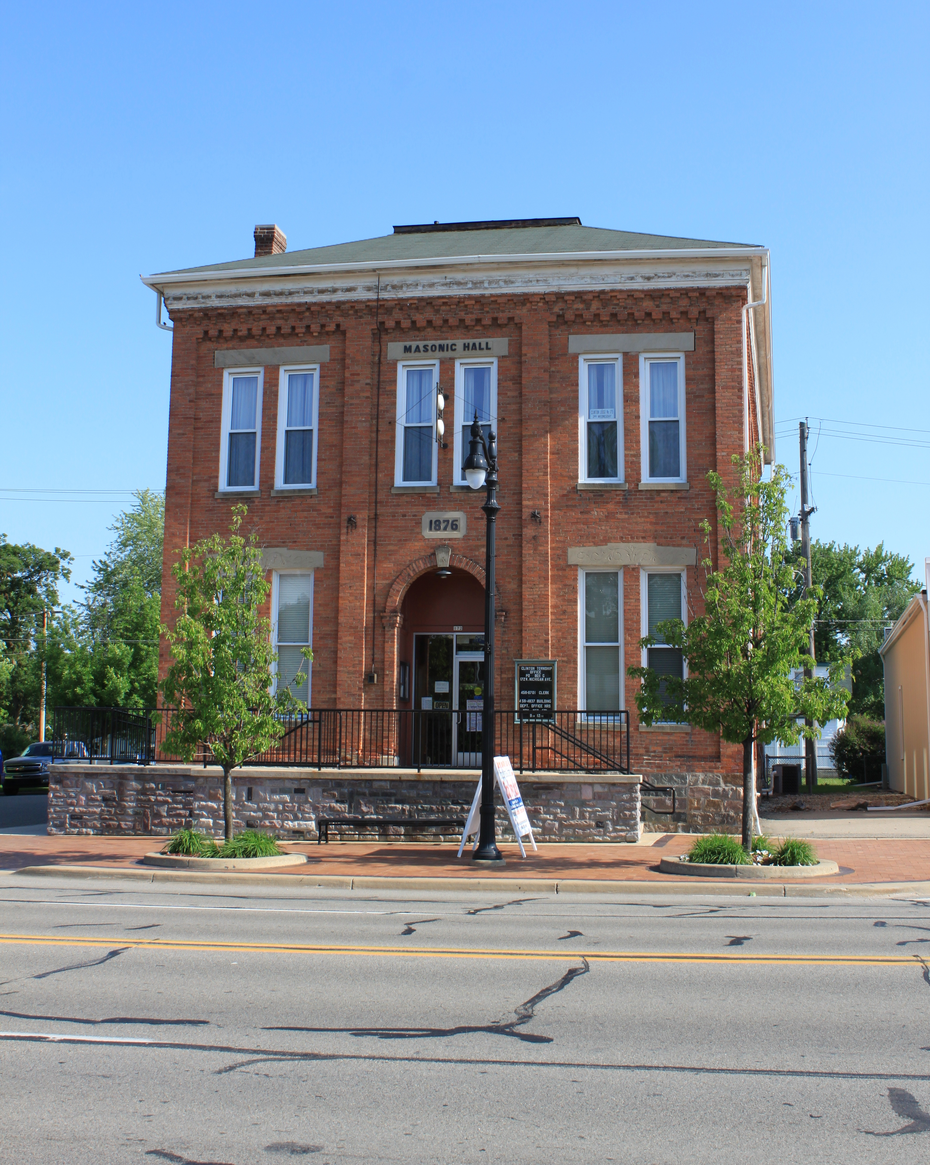 Clinton Township Office, 172 West Michigan Avenue, Clinton, Michigan.